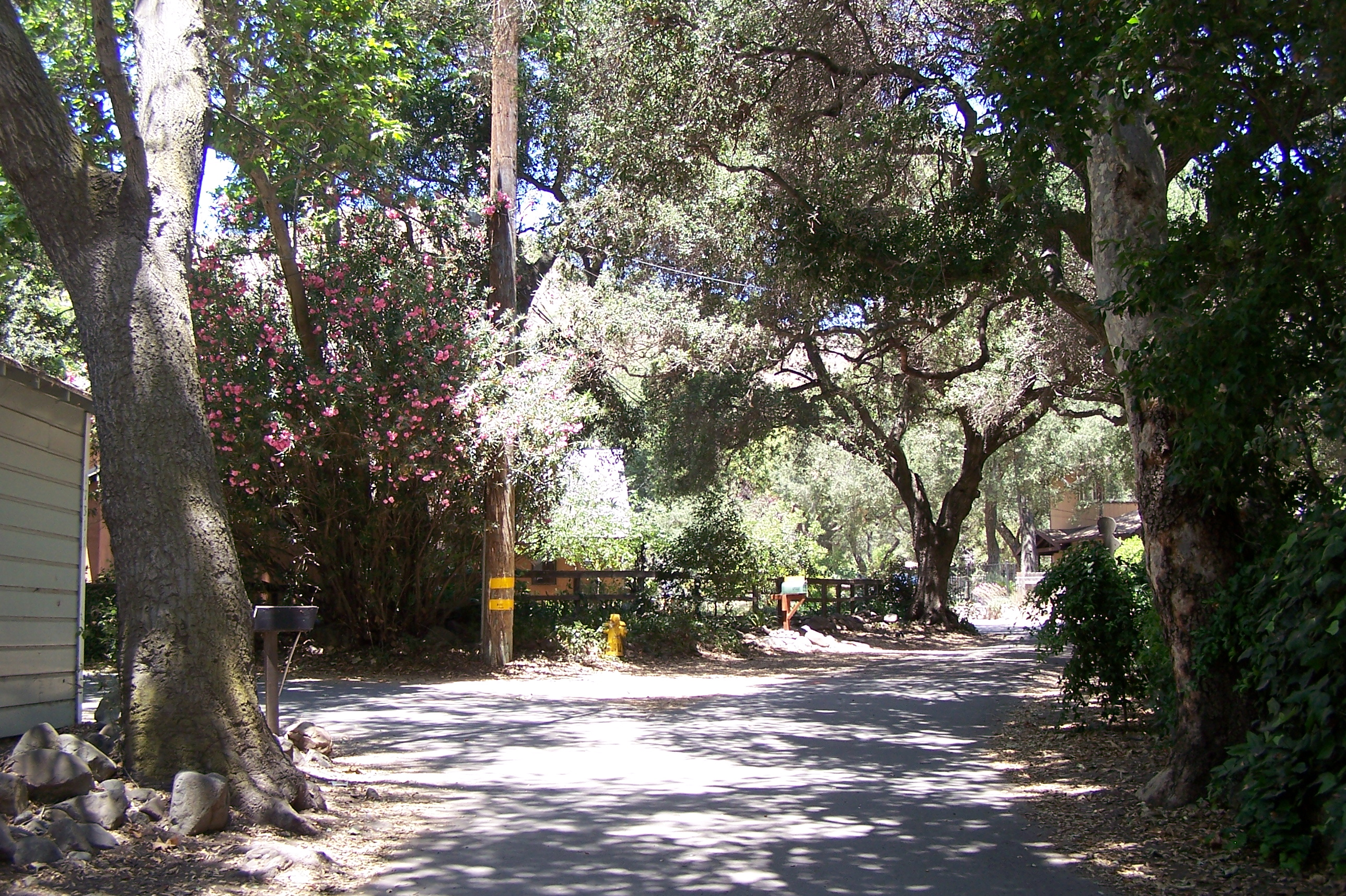 located off of the main street, this road is diagonal from the community center.